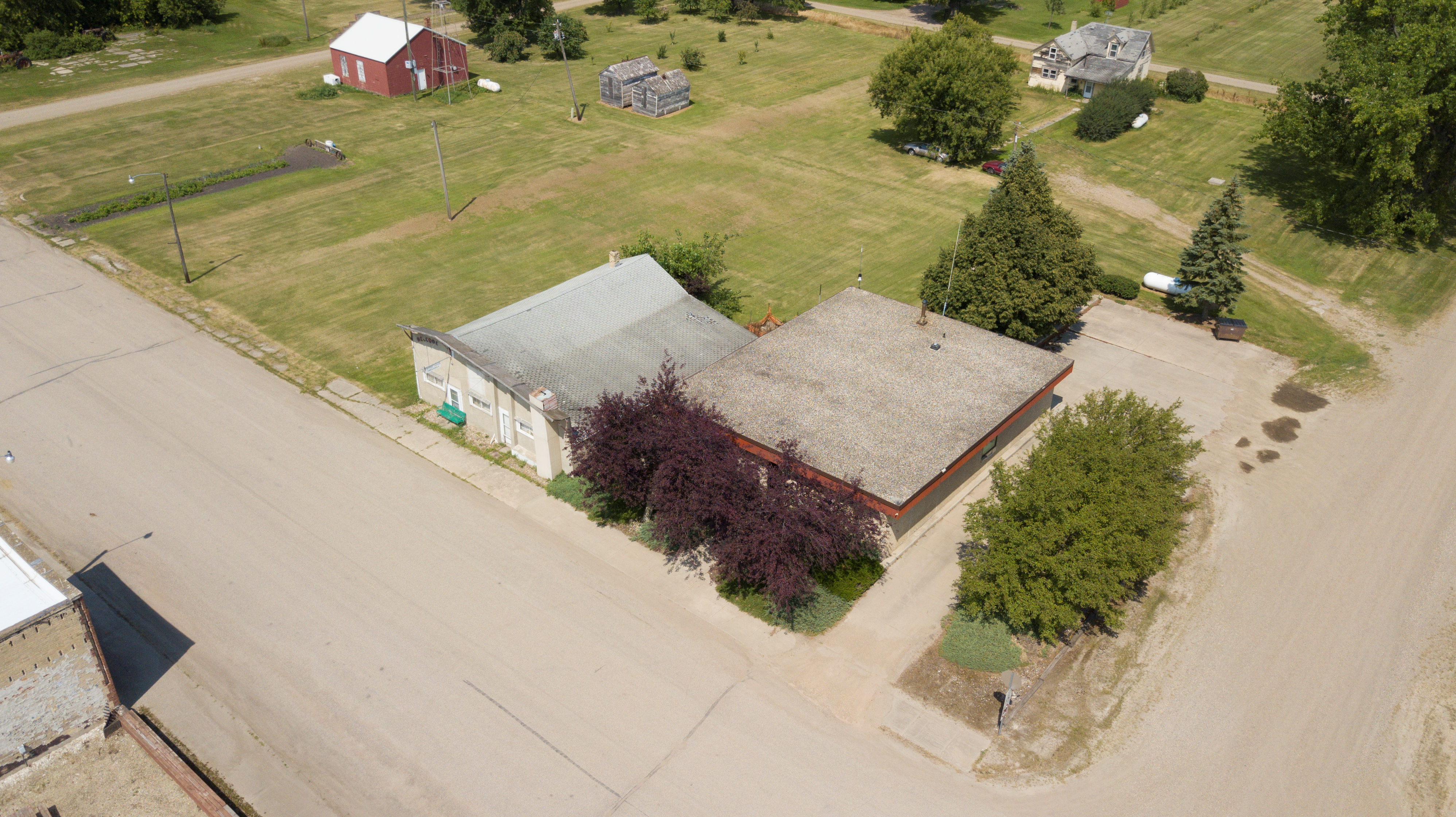 Hamilton, North Dakota - Bank of Hamilton, #1 Wall Street, taken with a DJI Mavic Pro drone by Neal Martin (originally from Hamilton, ND).